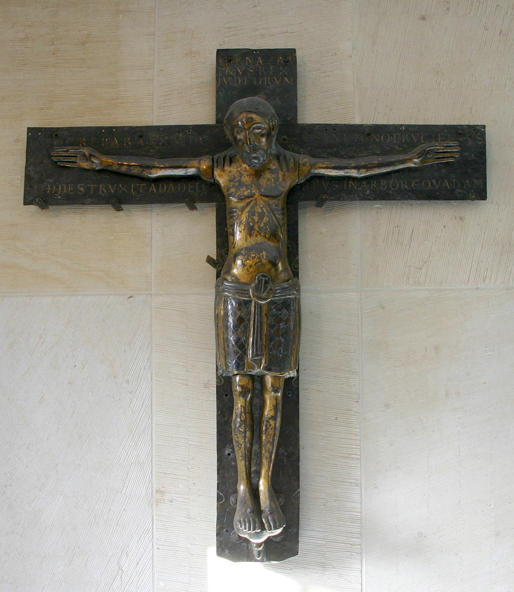 Minden crucifix, treasure chamber of the Minden cathedral, Germany.